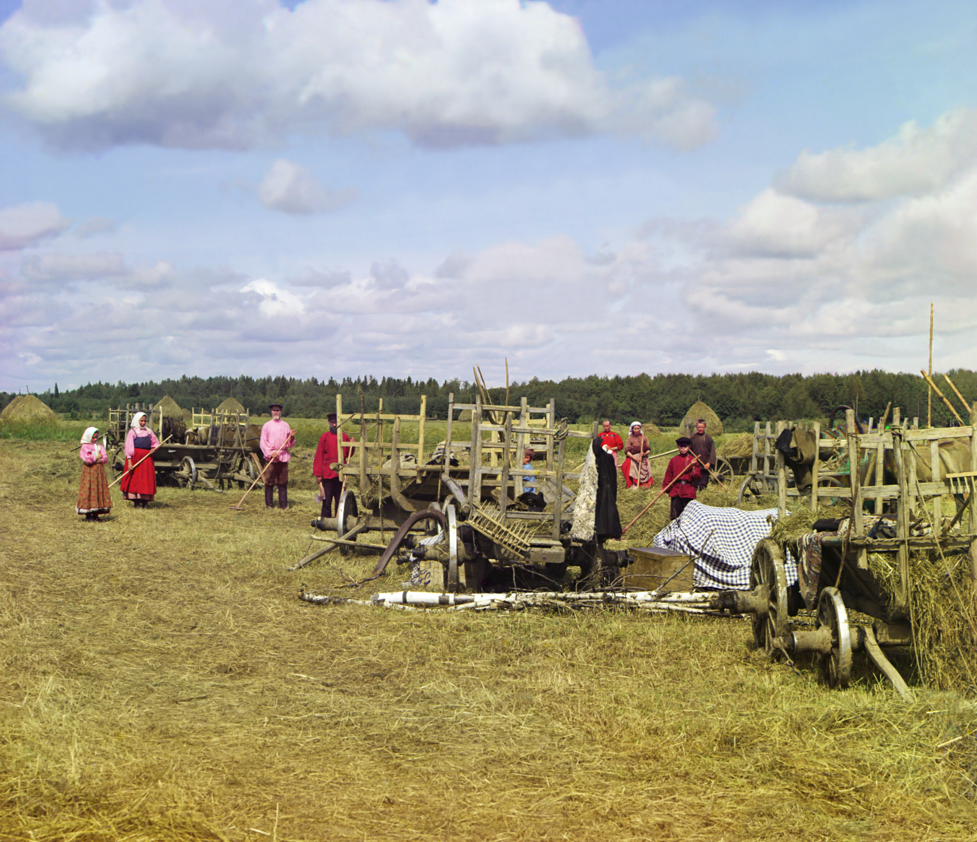 Original Description: Haying, near rest time. [Russian Empire]. Farm workers standing near their farm equipment, taking break from haying.